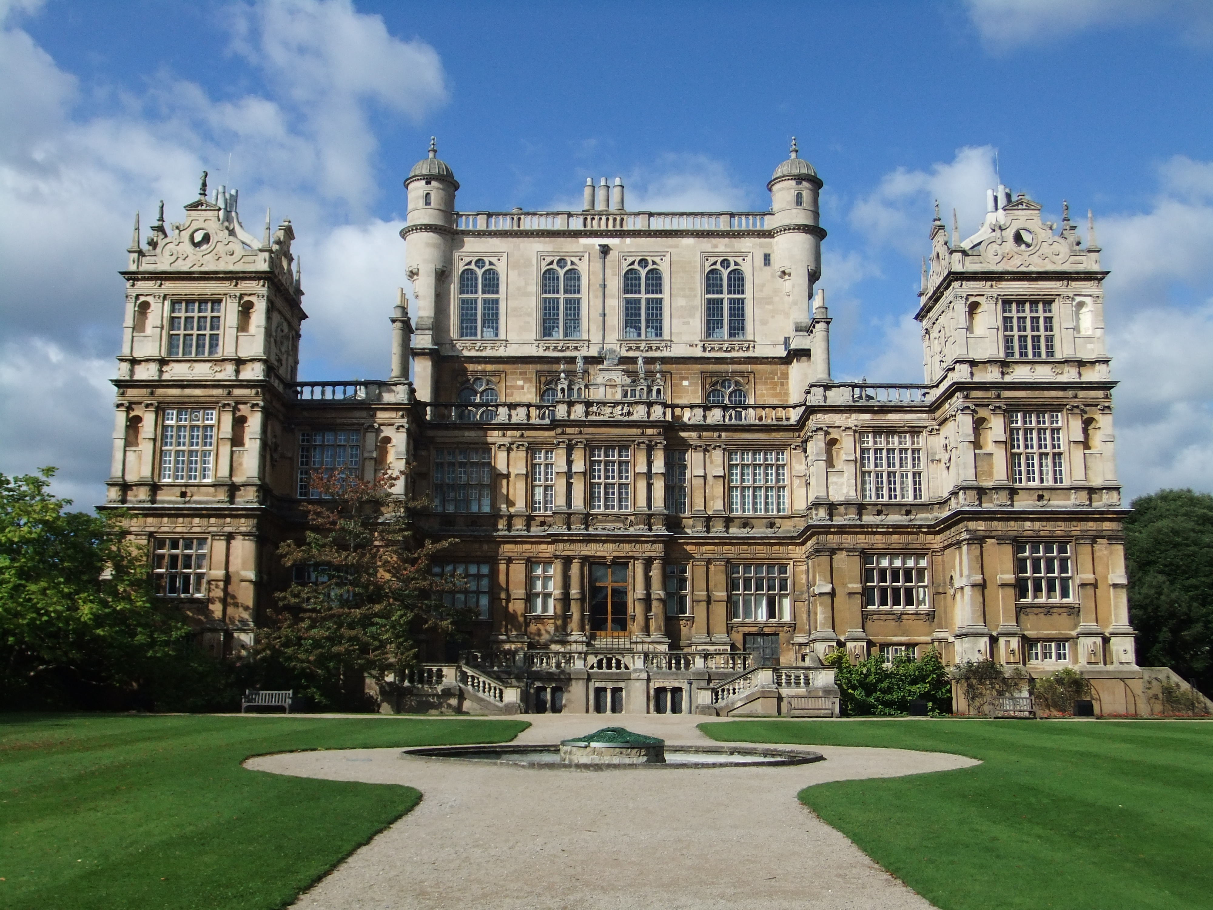 Taken at Wollaton Park.